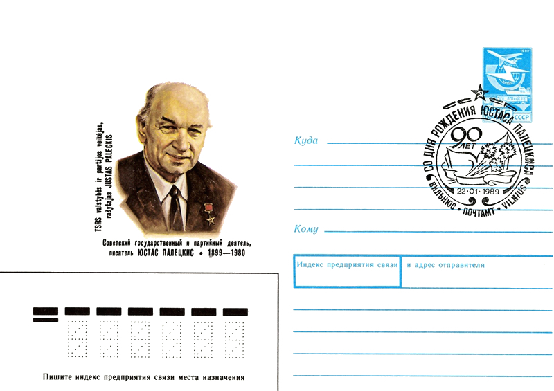 1988 Soviet postal cover with portrait